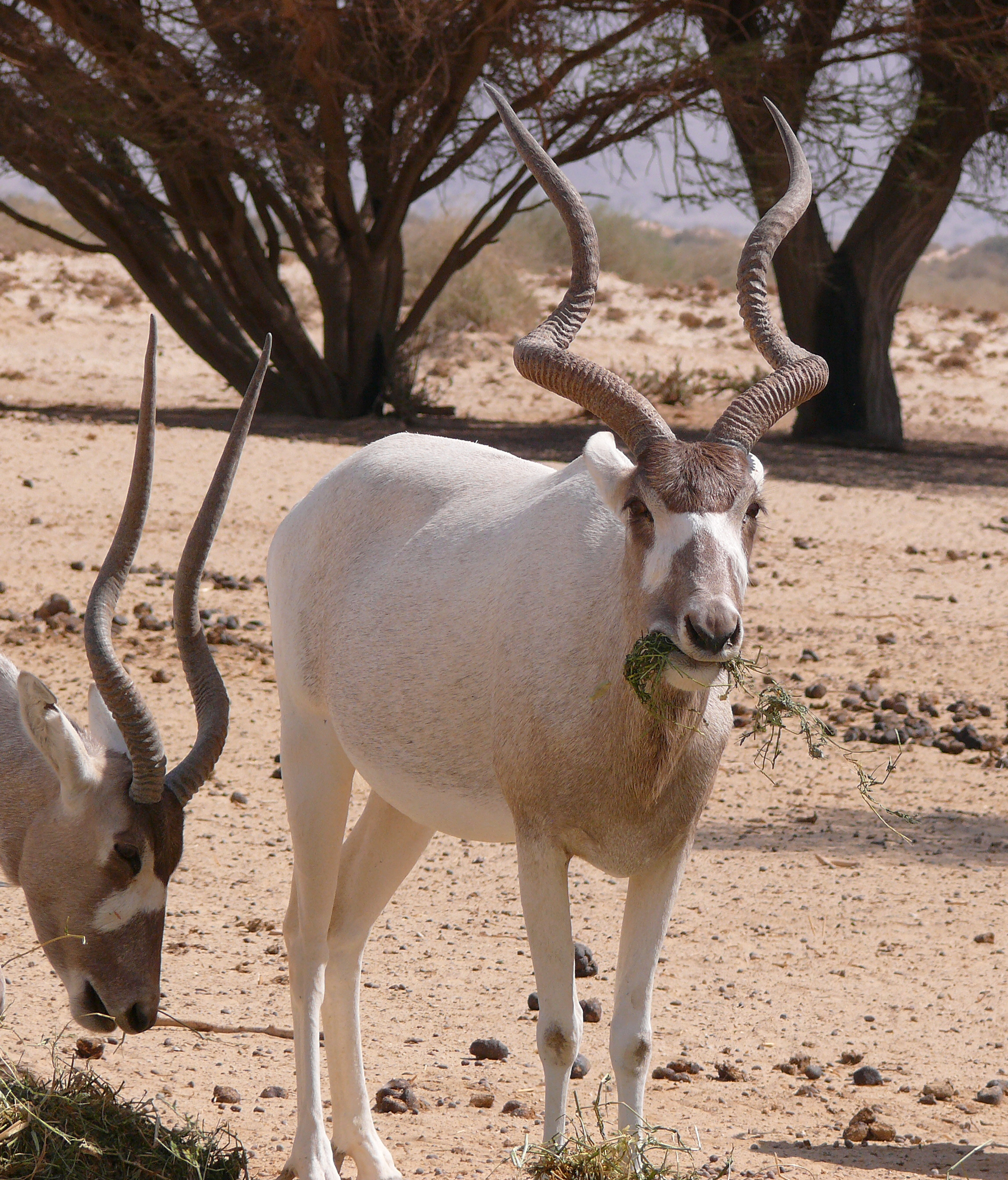 Addax nasomaculatus, Chay Bar Yotvata, Israel